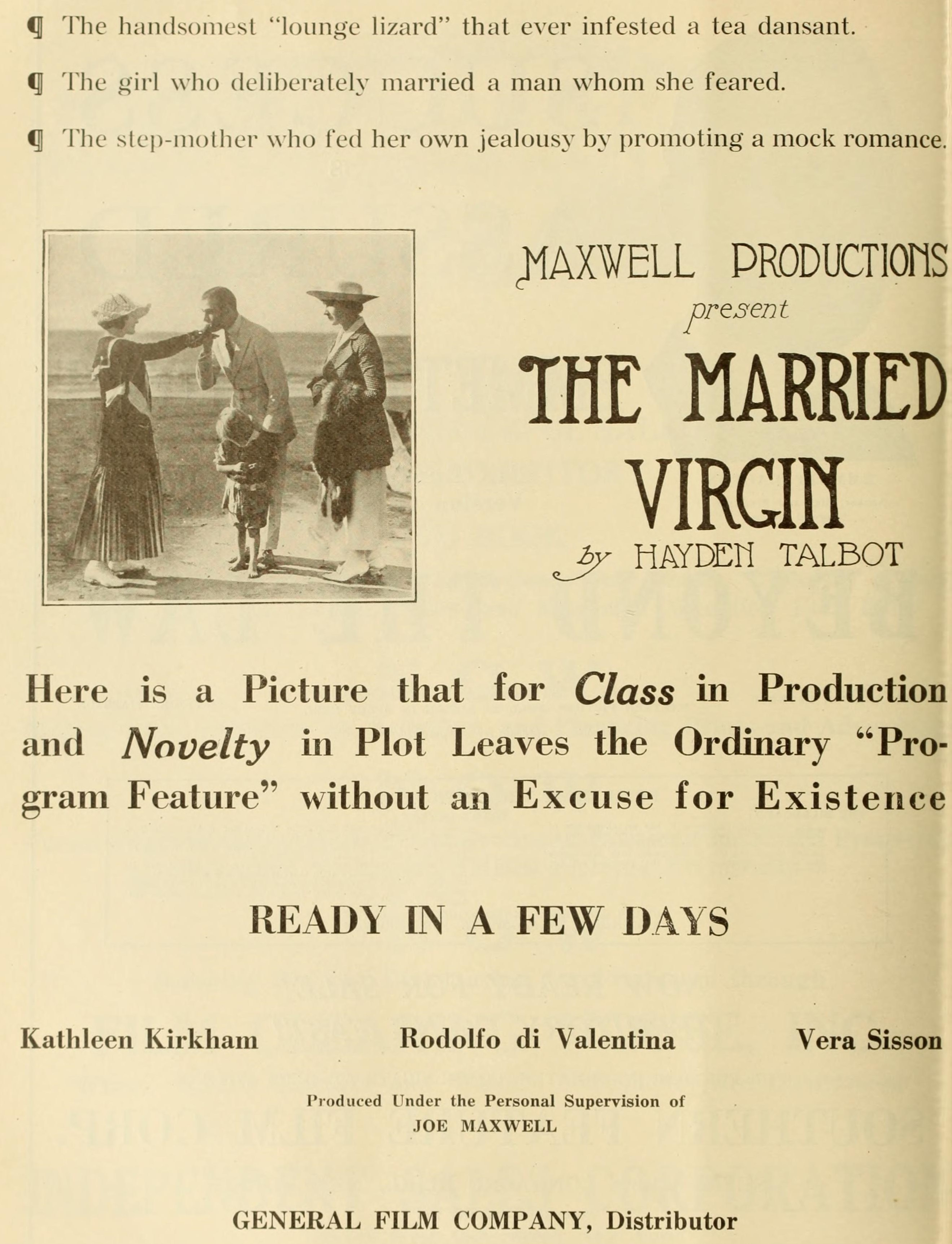 Moving Picture World, Dec. 14, 1918, advertisement for the American film The Married Virgin (1918).